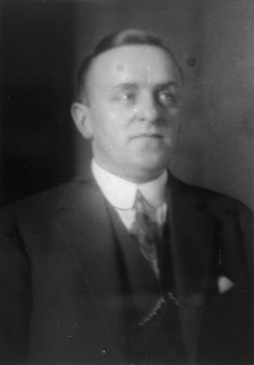 Hans Chrystie Høegh (1883 – 1975) was a Norwegian florist